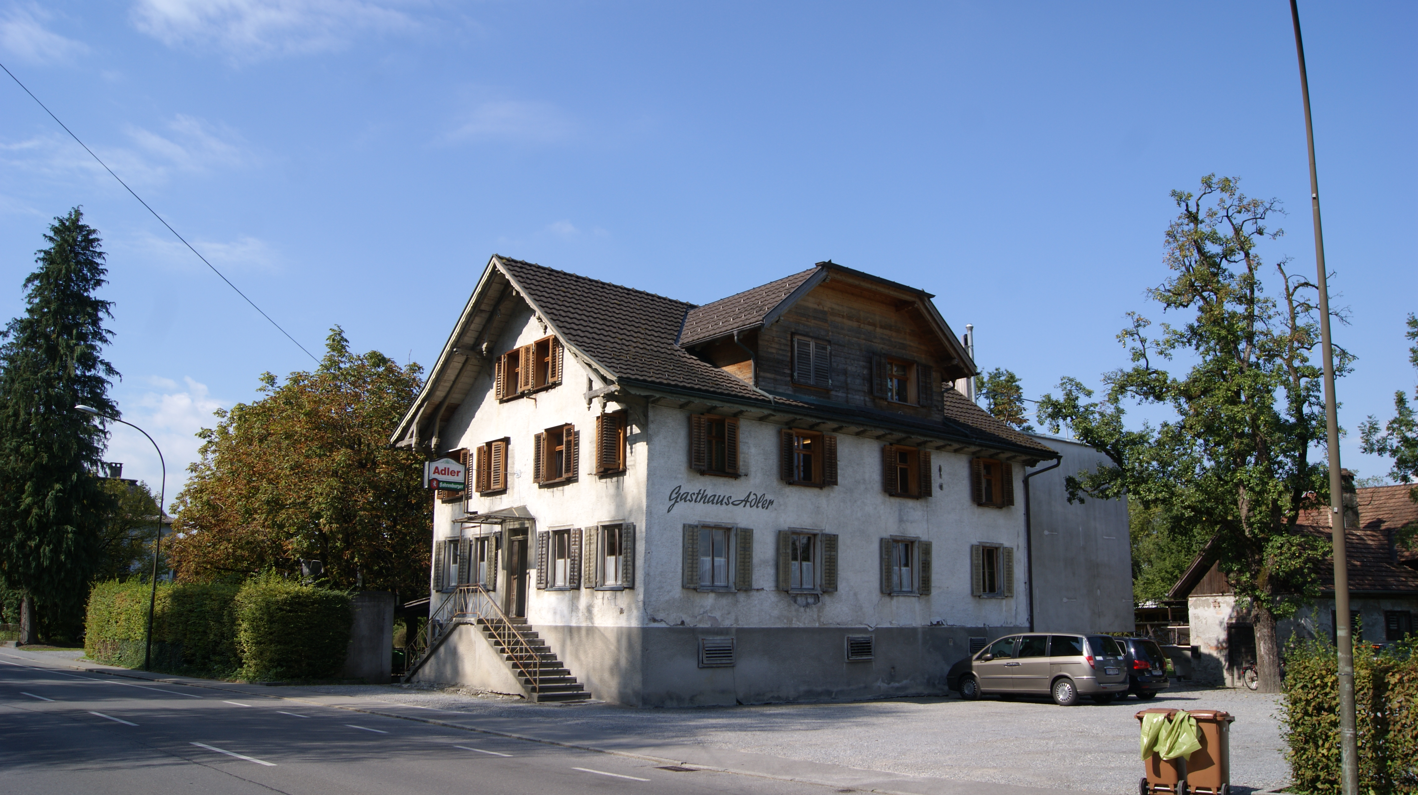 Local centre "Schwefel" in Hohenems, Vorarlberg, Austria. Inn Adler at the L 190th.